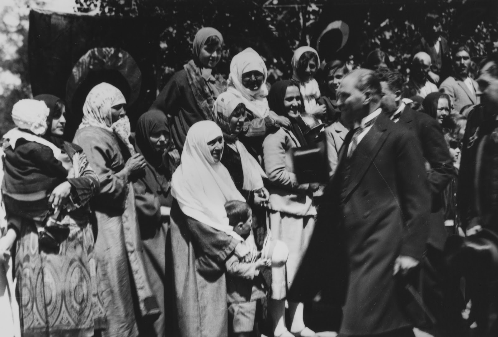 Kemal Atatürk (or alternatively written as Kamâl Atatürk, Mustafa Kemal Pasha until 1934, commonly referred to as Mustafa Kemal Atatürk; 1881 – 10 November 1938) was a Turkish field marshal, revolutionary statesman, author, and the founding father of the Republic of Turkey, serving as its first President from 1923 until his death in 1938. He undertook sweeping progressive reforms, which modernized Turkey into a secular, industrial nation. Ideologically a secularist and nationalist, his policies and theories became known as Kemalism. Due to his military and political accomplishments, Atatürk is regarded as one of the most important political leaders of the 20th century.